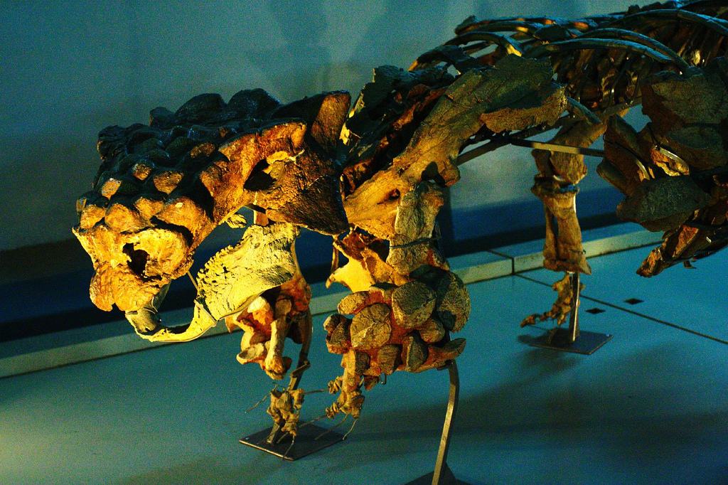 Mounted skeleton of Pinacosaurus specimen MPC 100/1305 with skull cast of Saichania. Central Museum of Mongolian Dinosaurs.